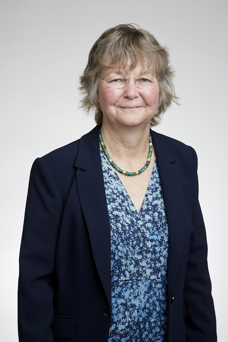 Alison Mary Smith (born 1954) FRS is Strategic Programme Leader at the John Innes Centre in Norwich and an Honorary Professor at the University of East Anglia (UEA) in the UK Attribution: The Royal Society